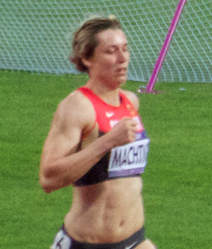 2012 Summer Olympics - Women's Heptathlon - 800 m - heat 1 Julia Mächtig (GER)